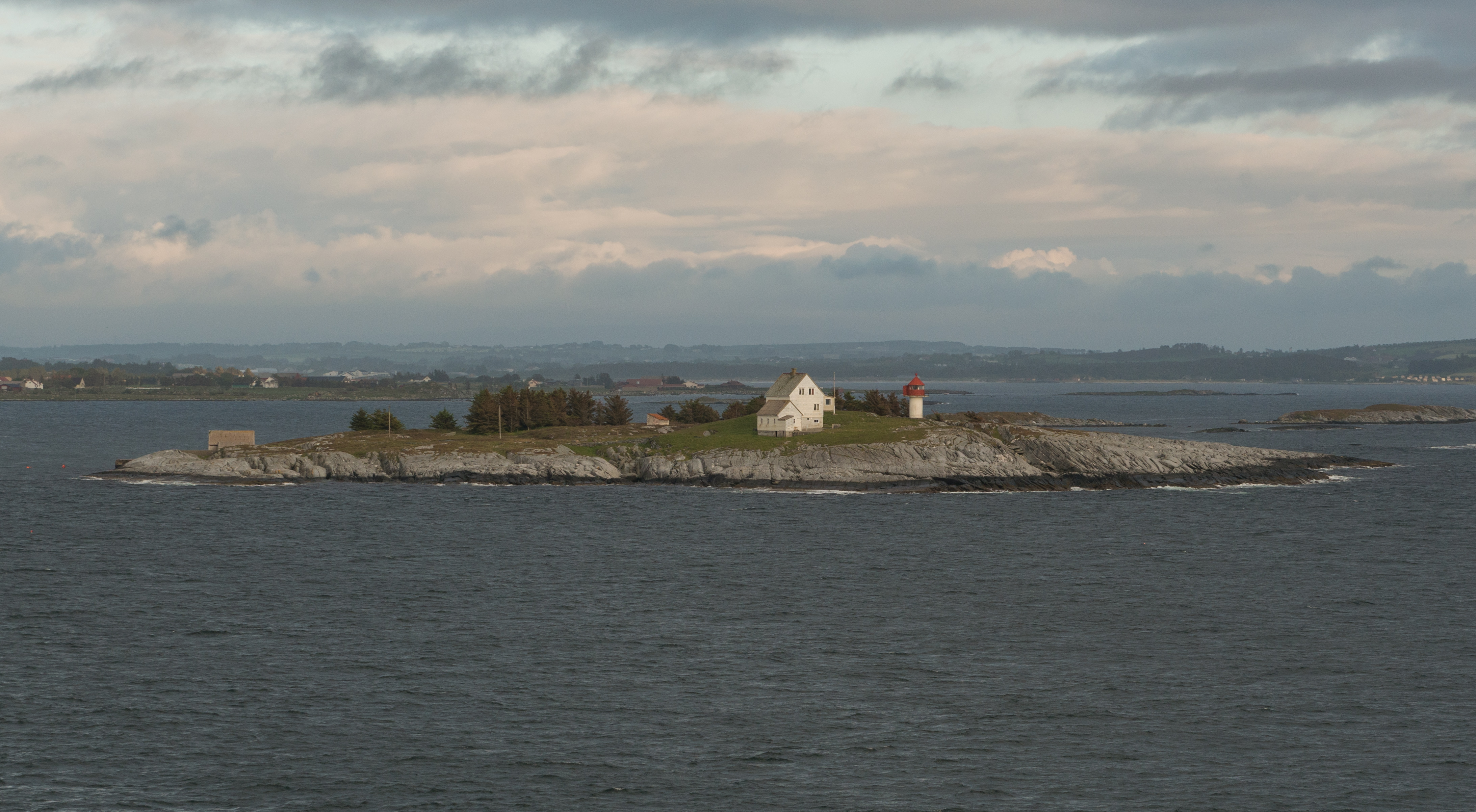 A view of Flatholmen island with a small lighthouse